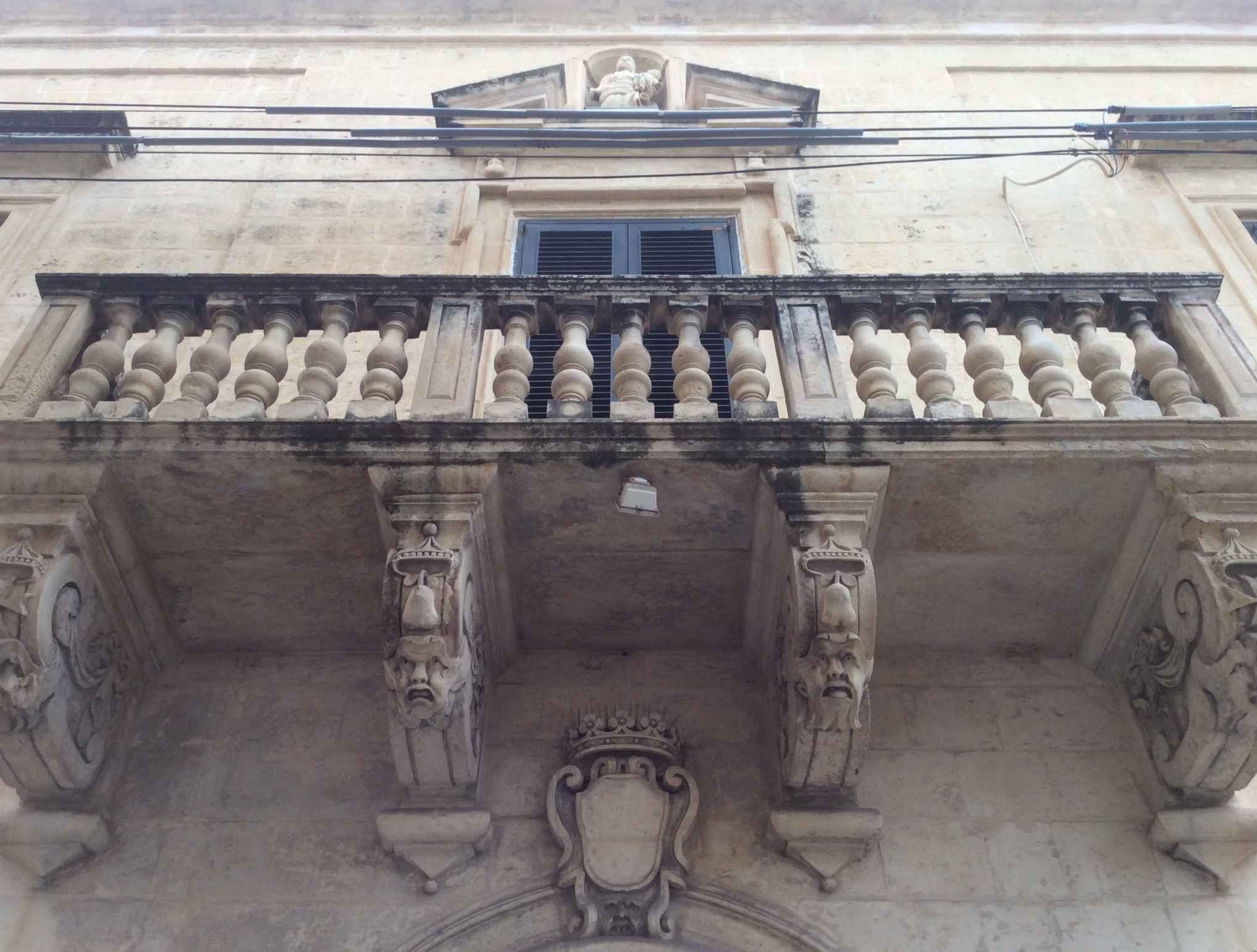 Zejtun